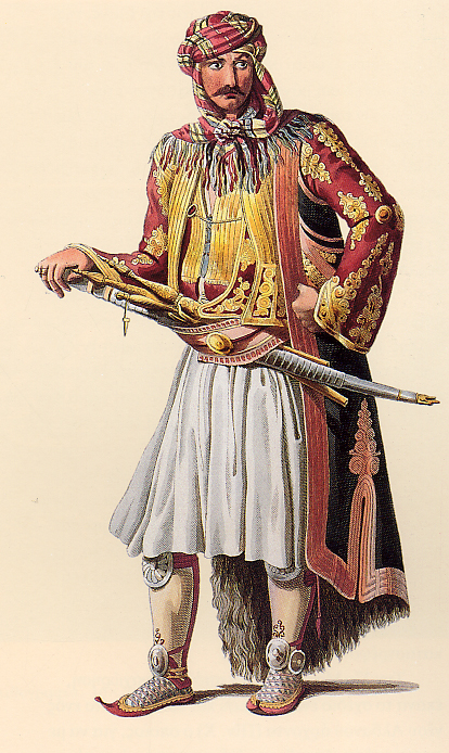 Janissary from Giannena